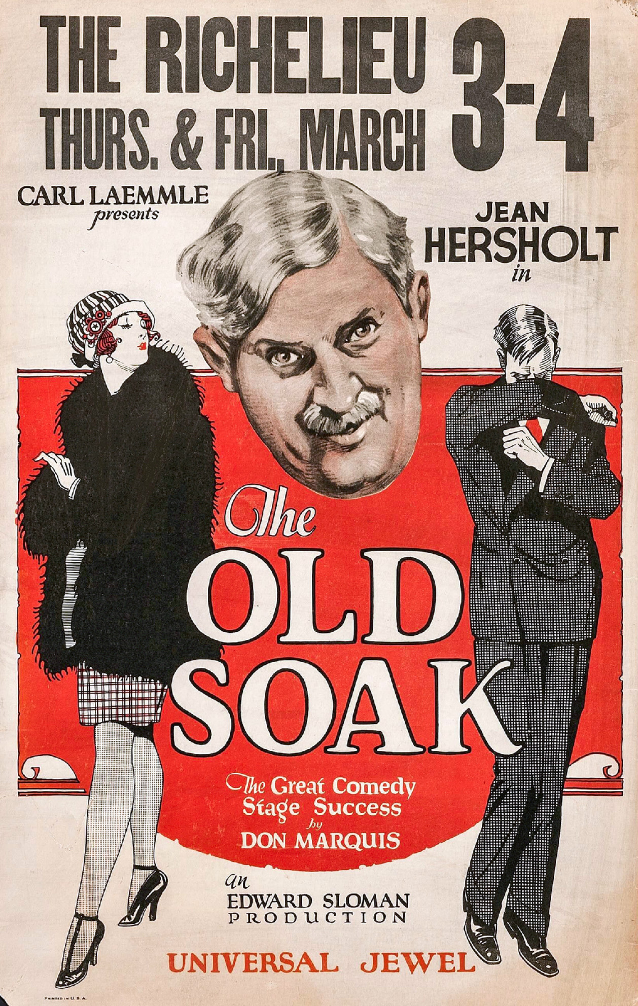 Window poster for the 1926 film The Old Soak. There are no copyright marks on the item. At bottom left is Printed in USA.